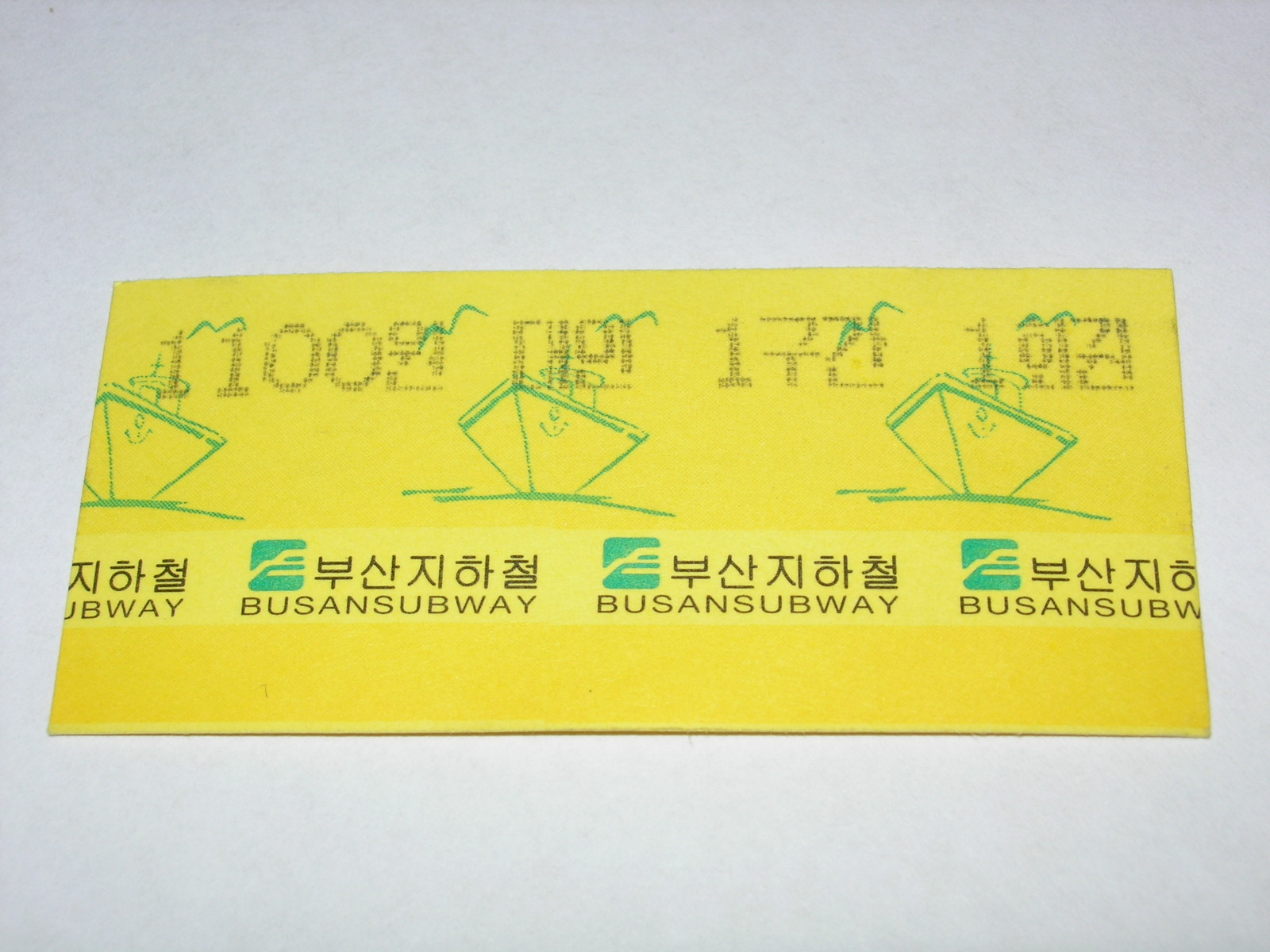 BUTC Busan Subway one way ticket.